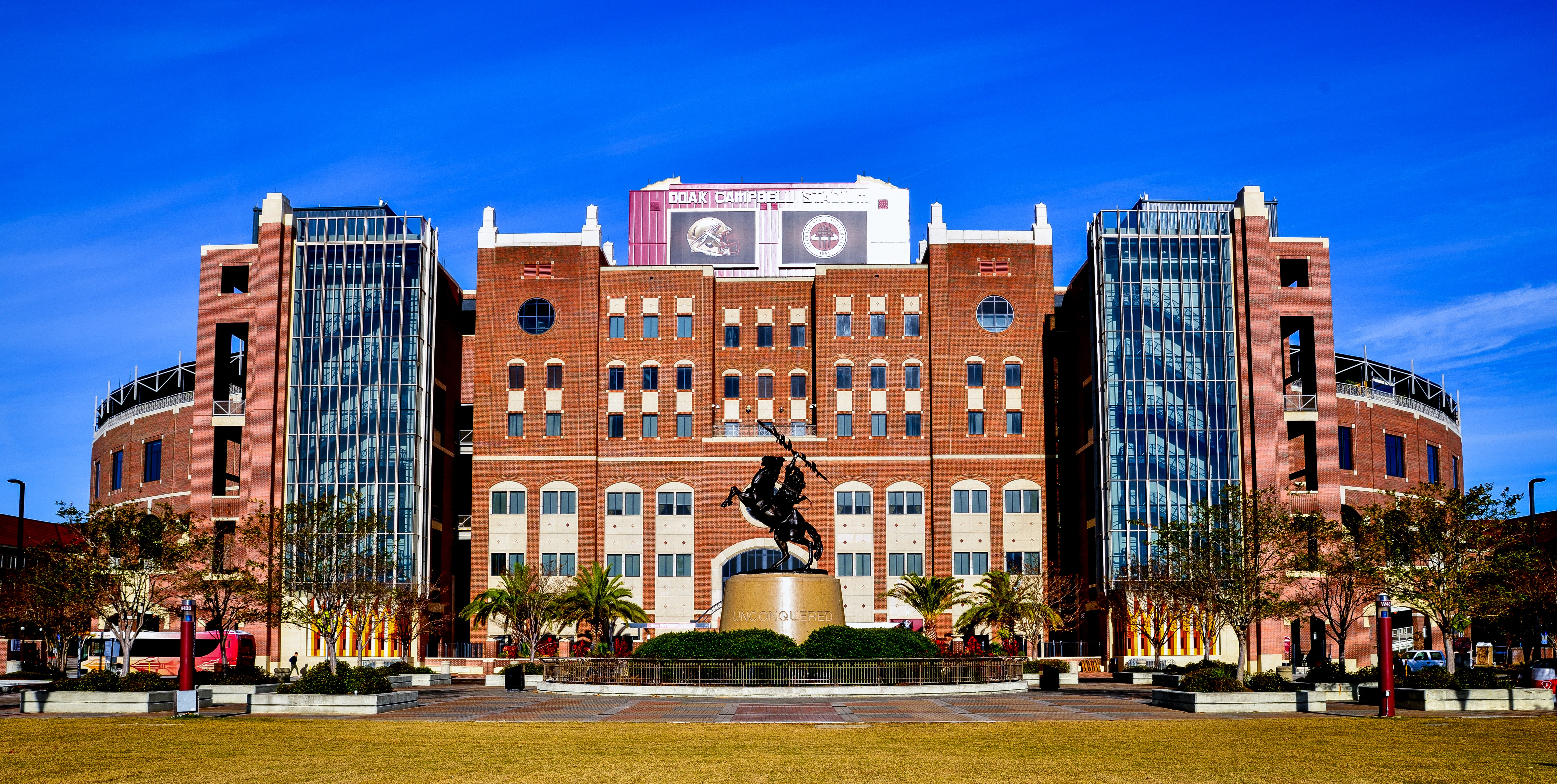 The South entrance of Doak Campbell Stadium at Florida State University